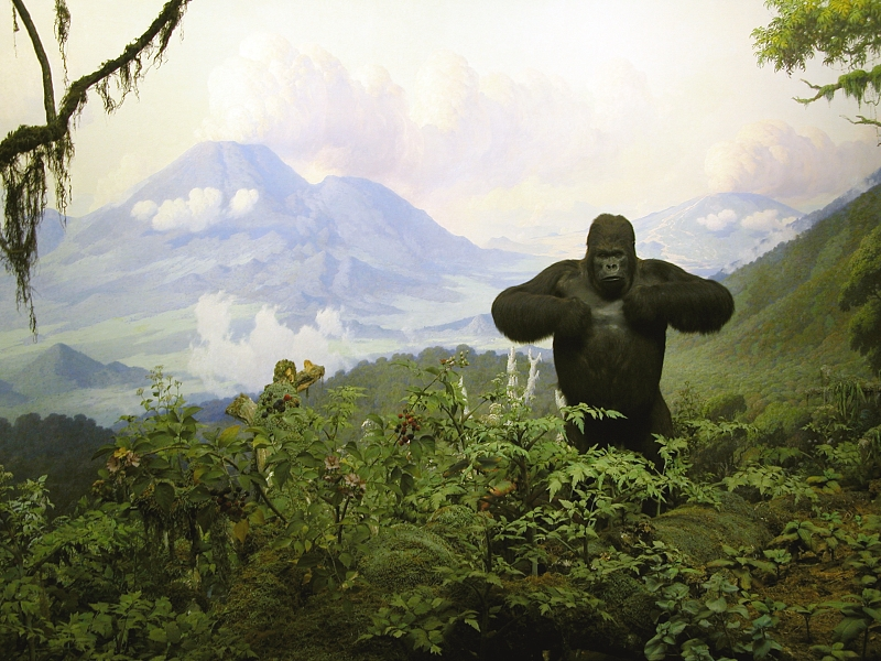 American Museum of Natural History, New York, USA